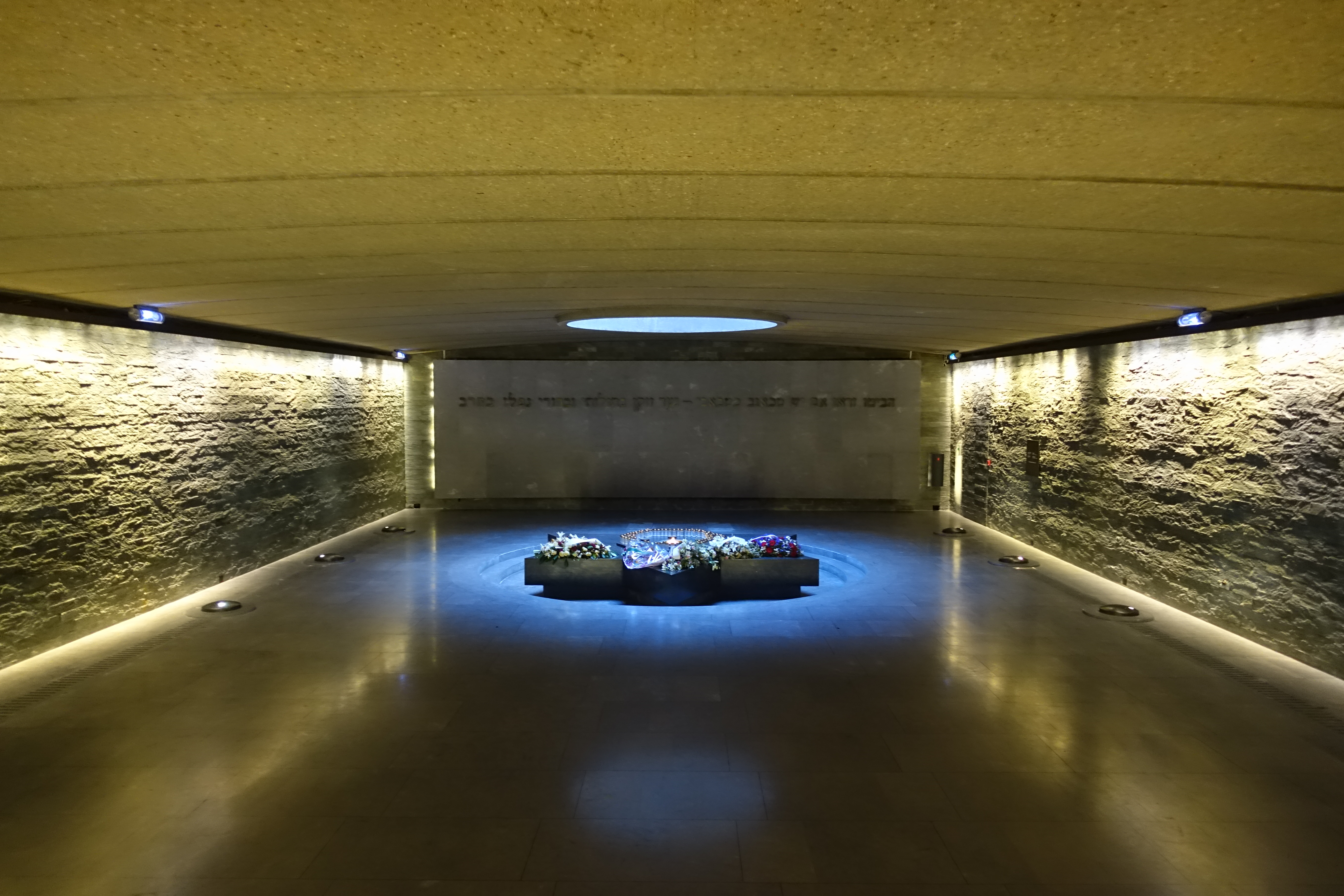 Mémorial de la Shoah